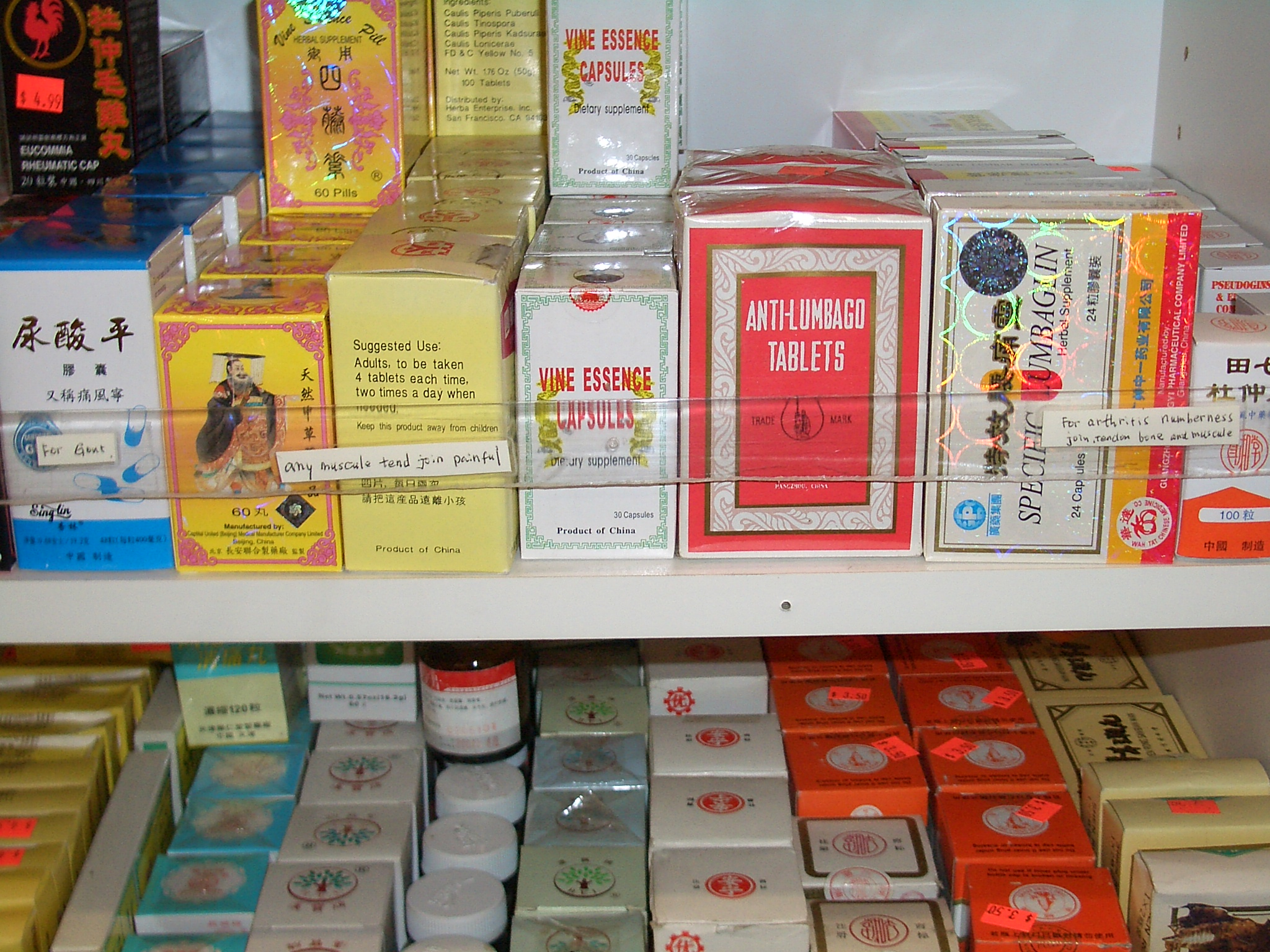 Medicines in a Chinese pharmacy in Seattle.